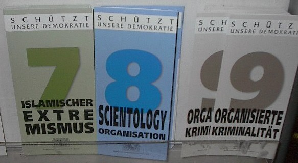 Brochures from the Federal Office for the Protection of the Constitution labeled "Protect our democracy", providing information about Islamic extremism, Scientology and Organised crime The other numbers in the series are [1]: 1. About Verfassungsschutz (the German FBI). 2. Terror und Gewalt (terror and violence) 3. Rechtsextremistische Parteien (right-wing extremist parties) 4. Revisionismus 5. Neonazismus 6. Kommunismus and 10. Spionage. --Ayacop (talk) 07:47, 2 July 2009 (UTC)